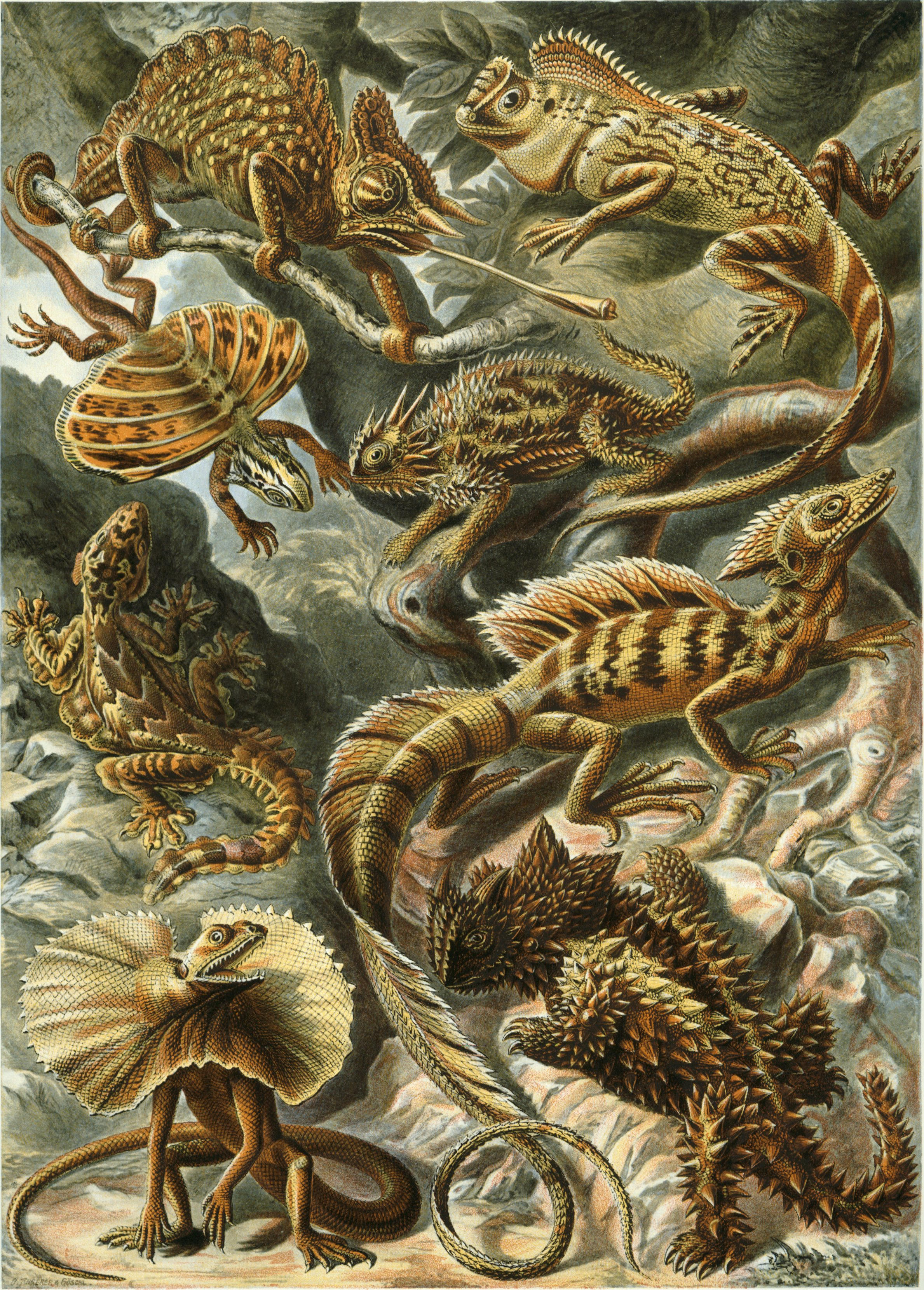 Cameroon Sailfin Chameleon Chameleon Forest Dragon Flying Dragon Texas Horned Lizard Kuhl's Flying Gecko Common Basilisk Frill-necked Lizard Thorny Devil The 79th lithographic plate from Ernst Haeckel's Kunstformen der Natur (1904) depicts a variety of lizards, or Lacertilia. In terms of evolutionary relationships, these eight lizards demonstrate the diversity of the suborder Lacertilia, which has been replaced by an array of new suborders and infraorders in recent classifications. Unusual species of chameleon and gonocephalus are at the top; the second row has a flying dragon and a Texas horned lizard; the third row has a flying gecko and a common basilisk; on the bottom row are the aptly named frill-necked lizard and the Thorny Devil. As in many of Haeckel's prints, the colors and spatial composition are more of an aesthetic choice than a reproduction of nature; the lithographer Adolf Glitsch worked directly from Haeckel's sketches rather than from first-hand specimens. (Olaf Breidbach (2004): Visions of Nature: The Art and Science of Ernst Haeckel. Prestel, New York, USA.) Full text description (in German)